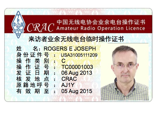 Class C Amateur Radio Operator's Certificate for Visitors issued to Mr. Joseph E. Rogers (AJ1Y) by CRAC on August 6, 2013. This certificate granted him the privilege to operate pre-existing amateur radio station on all amateur radio bands and frequencies, with maximum power output of 1000W on frequencies below 30 MHz and 25W on frequencies above 30 MHz.